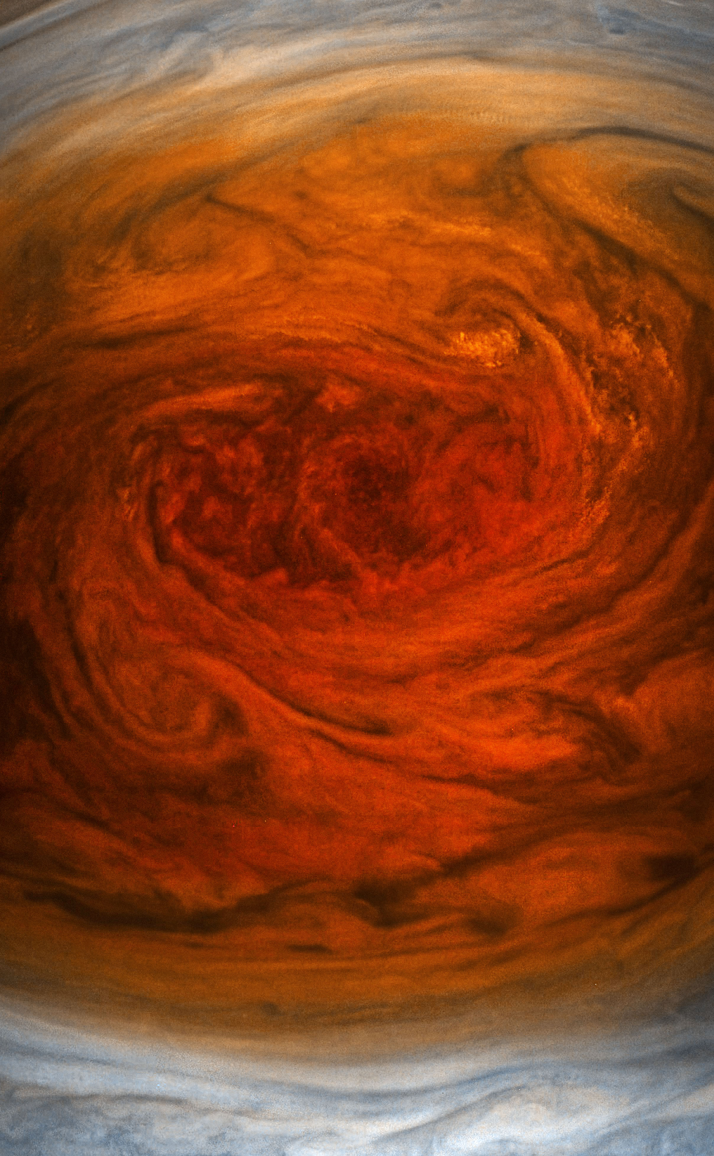 Detail image of Jupiter's Great Red Spot, taken by the Juno spacecraft flyover (PERIJOVE 7) on July 11,2017